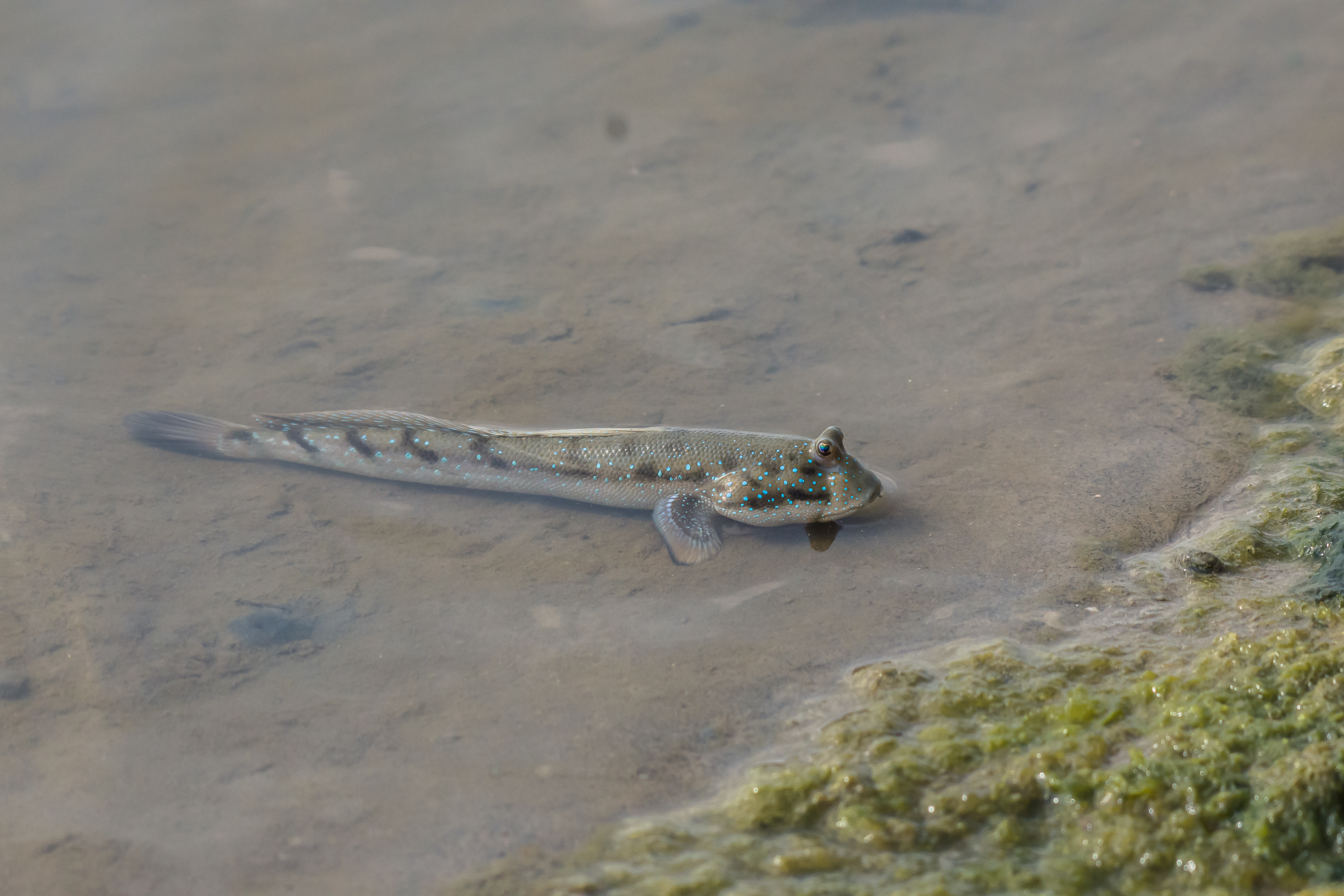 mudskipper at point calimere sanctuary Tamilnadu India